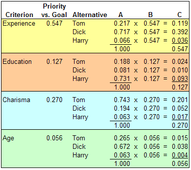 Illustration for Analytic Hierarchy Process article, drawn by me and released to the public domain. This is its first publication.